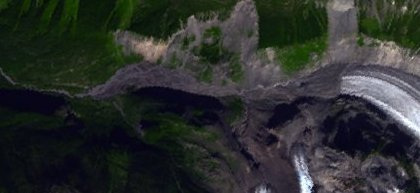 Satellite photo of the Silverthrone Caldera lava flow